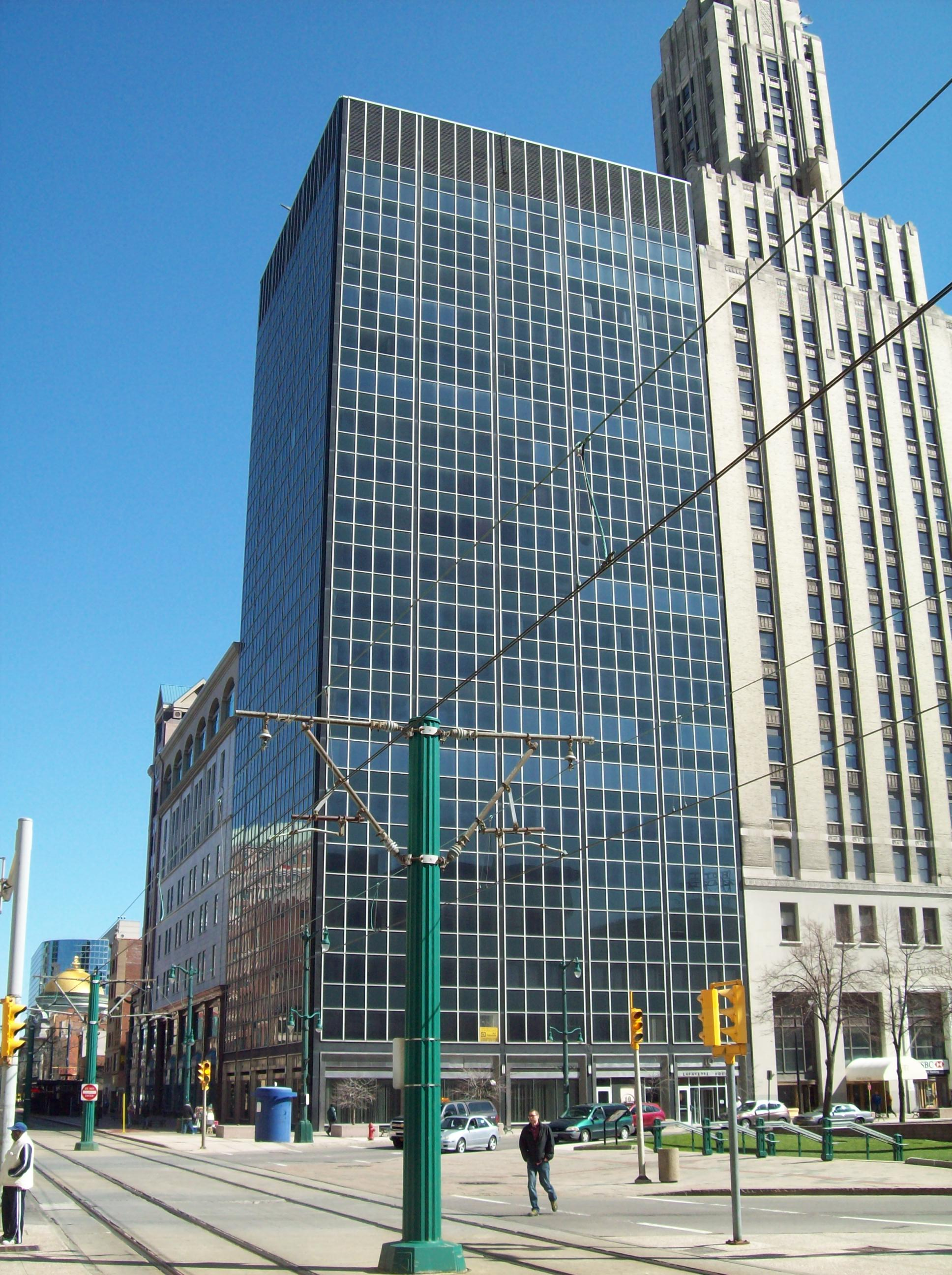 Tishman Building, Buffalo, NY, April 2012